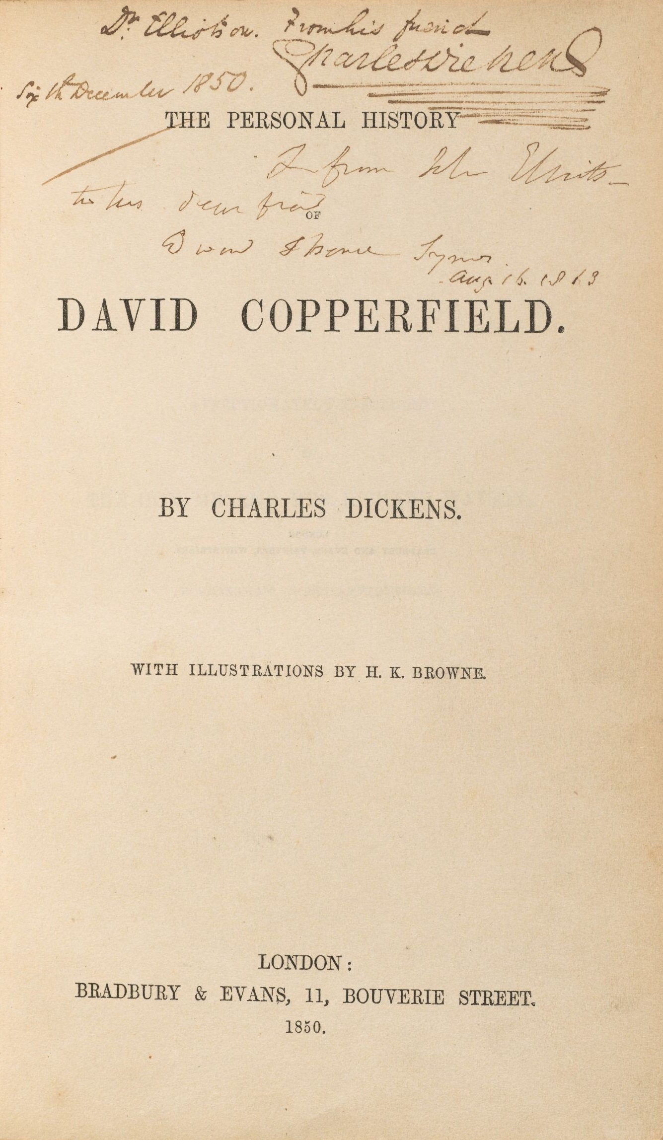 Title page from The Personal History of David Copperfield by Charles Dickens (London: Bradbury & Evans, 1850). Signed by the author as a gift to John Elliotson. First edition of the novel in book form. HEW 2.6.15, Houghton Library, Harvard University